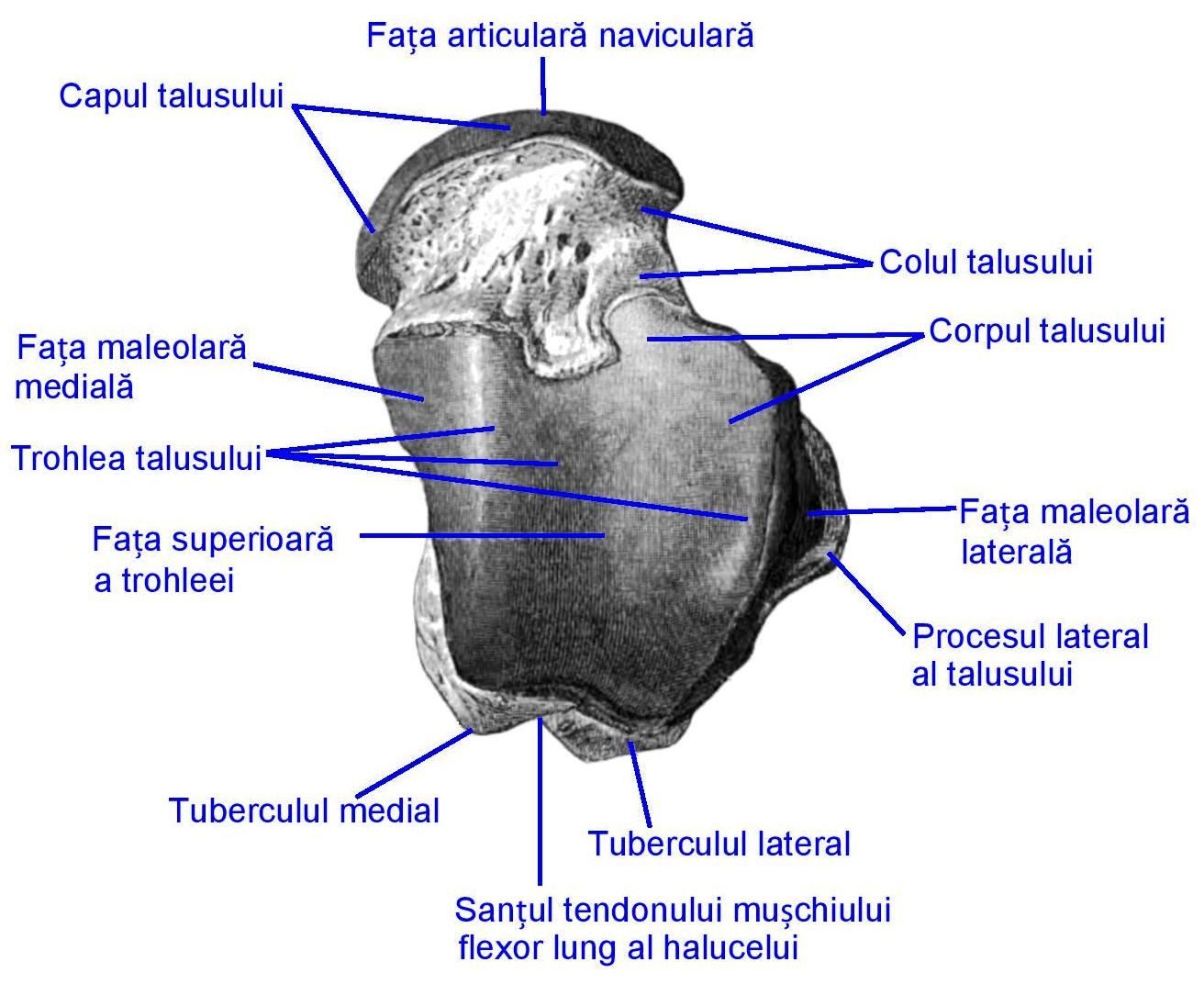 Talus, upper face